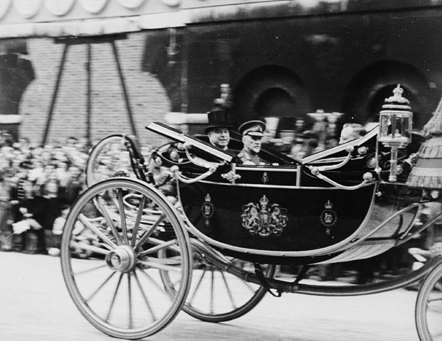 Rt. Hon. W.L. Mackenzie King riding with Field Marshal Jan Smuts during the Victory Parade